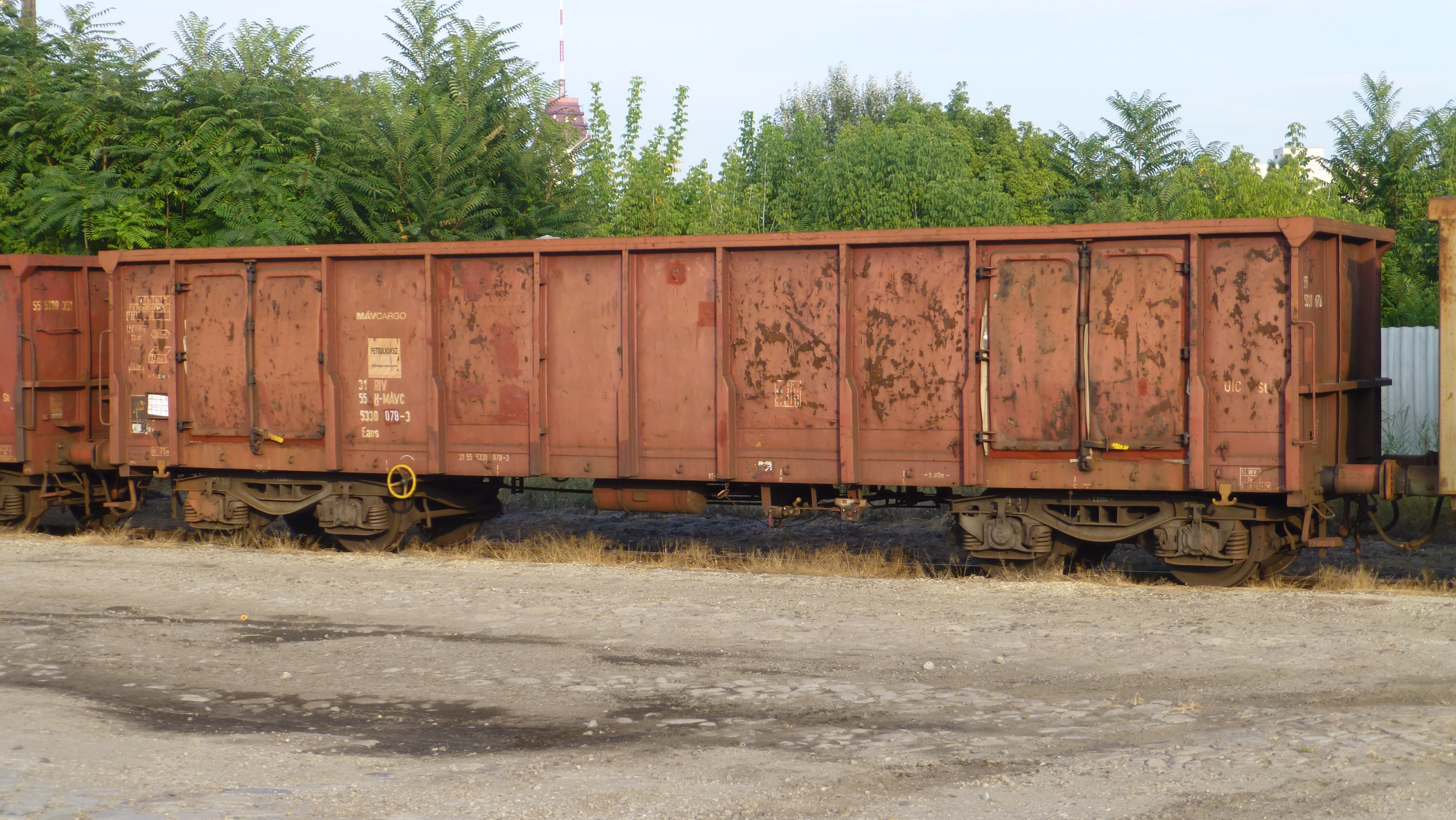 Class Eaos rail cargo wagon of the MÁV Cargo (Rail Cargo Hungaria) in Szeged-Rókus. Earlier the wagon was dedicated for the "petrolcoke" service of the Százhalombatta oil refinery. Key for Eaos letter group: E = Open top railcar with high sidewalls a = with four axes o = tipping to the front is forbidden s = In circulation according to the European Technical Specification for Interoperability, appendix B, standard s (100 km/h)